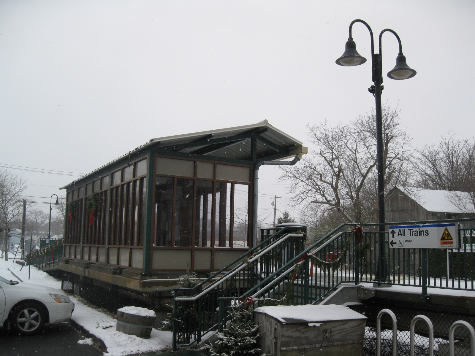 Mattituck LIRR station, taken January 2, 2010.